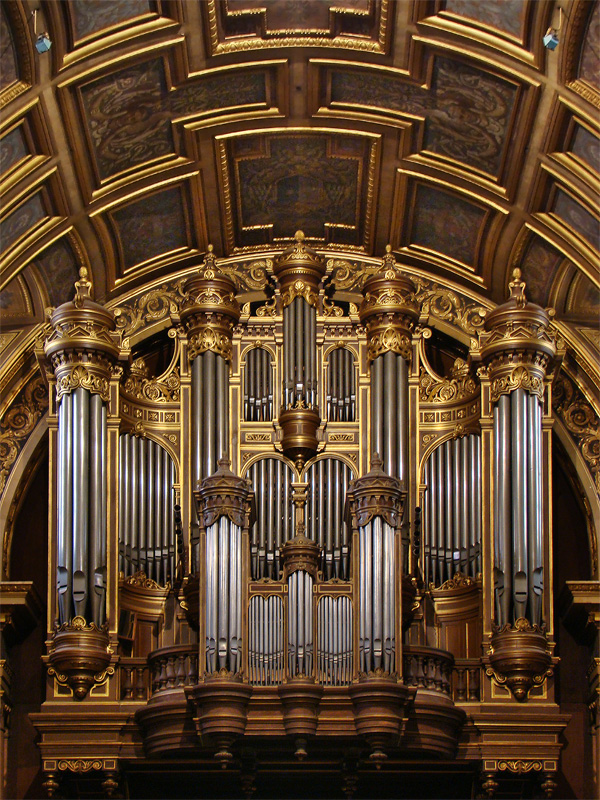 Rennes Cathedral, Ille-et-Vilaine, Bretagne, France. Cavaillé-Coll organ dating from 1874, totally rebuilt by Haerpfer-Erman in 1970. Instrument with 4 manual keyboards, 67 registers and 4953 pipes.